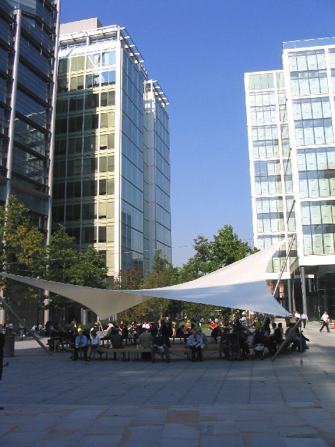 Bishops Square, Spitalfields, London - a town square with many trees. A pedestrian precinct directly west of Spitalfields Market (which is surrouned by eateries, bars, cafés and niche shops). The name is a medieval corruption of 'hospital fields' - the place where the sick and dying were taken outside of the city walls; see equally Spital, Windsor which is a close suburb.